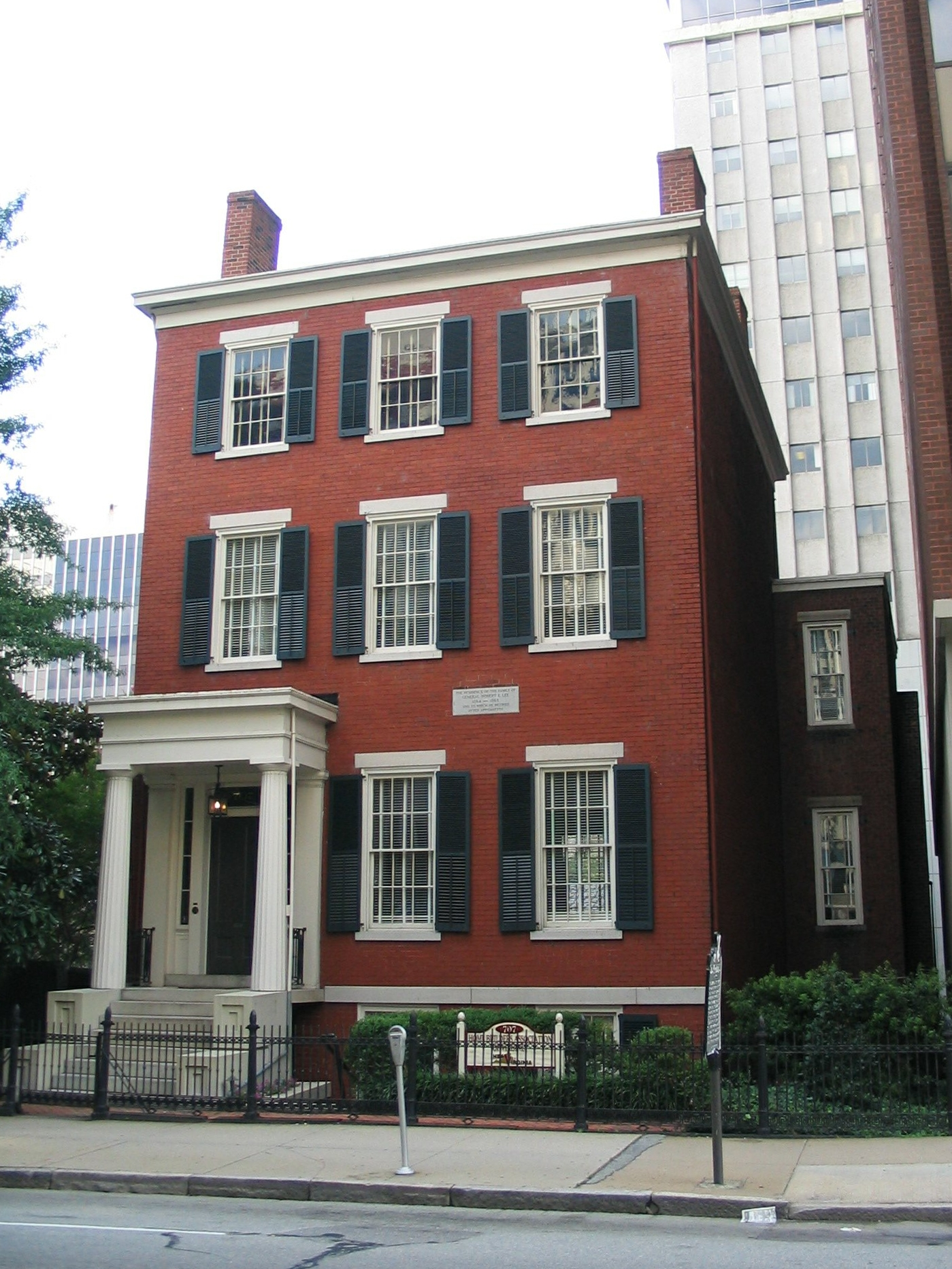 The Stewart-Lee House in Richmond, Virginia; on the National Register of Historic Places [rotated and cropped]